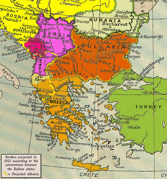 Balkan peninsula between the two Balkan Wars. The map is wrong in its depiction of divided Albania (the Greek area was far smaller, and there was an independent Albanian area around Vlore) and of Macedonia, where the Serbian and Greek lines followed the modern Greece-RoM border